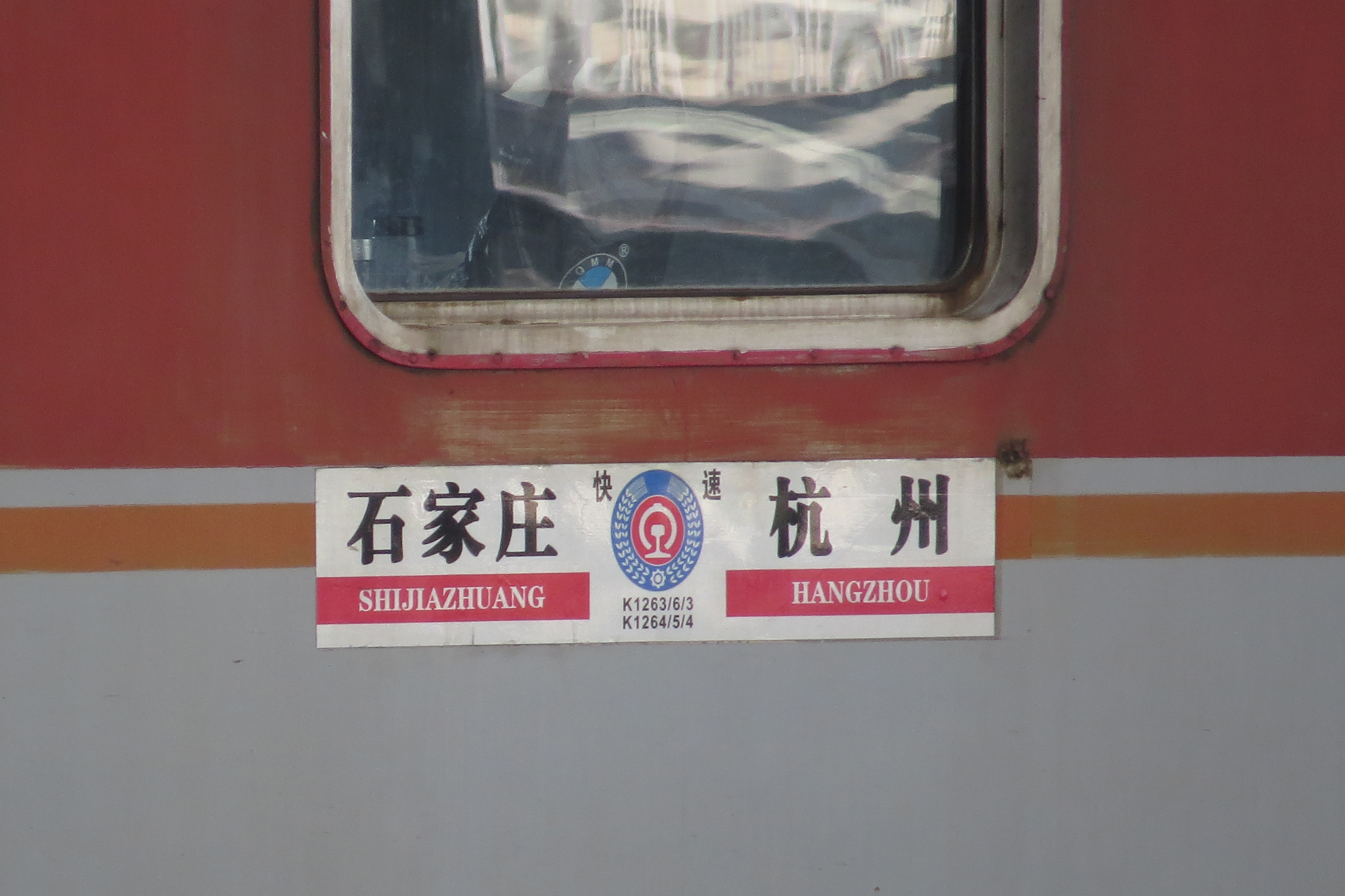 Shijiazhuang to Hangzhou.